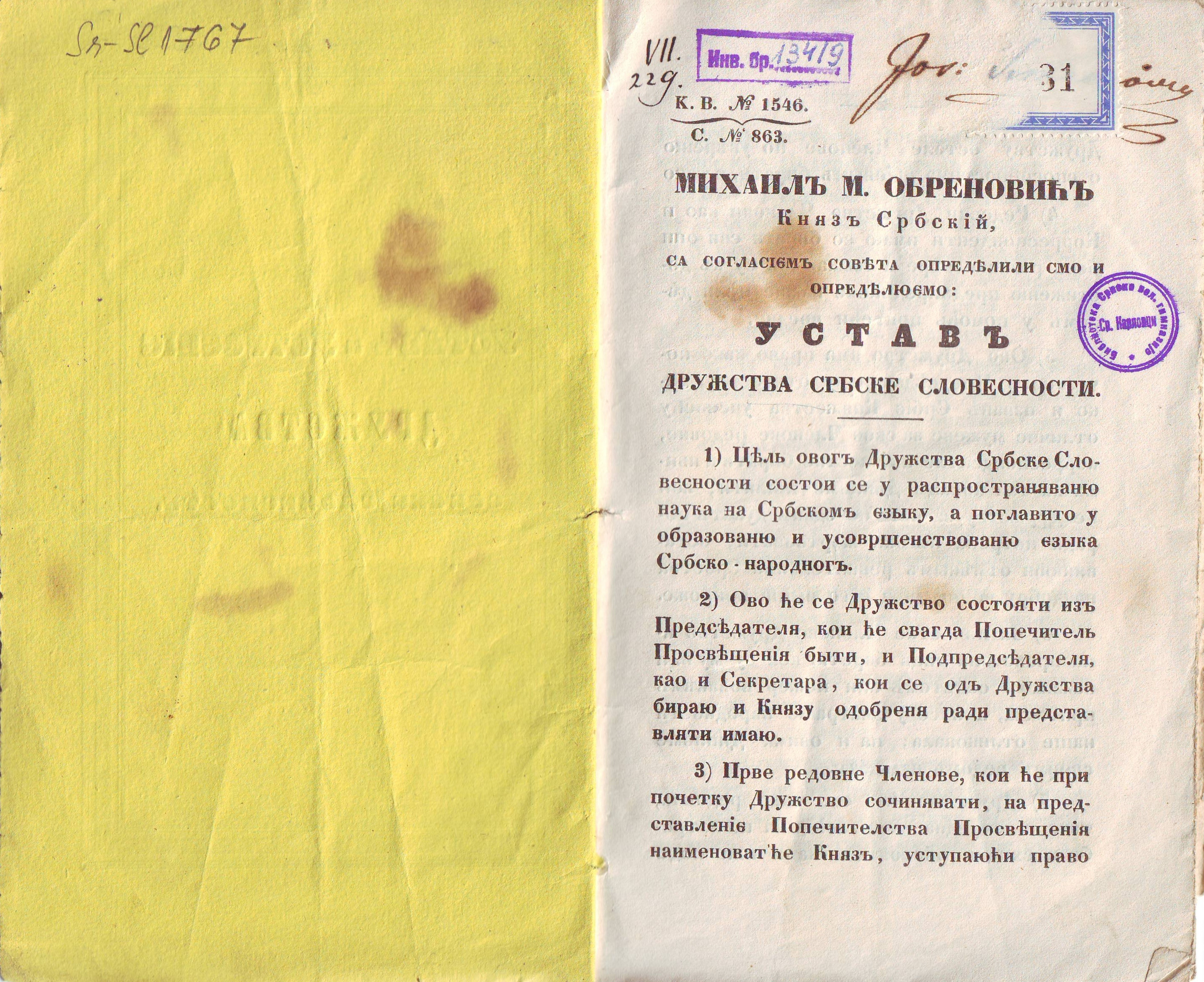 The first page of the Constitution of the Društvo srpske slovesnosti (1841). Srpski (latinica): Prva strana Ustava Društva srpske slovesnosti (1841).